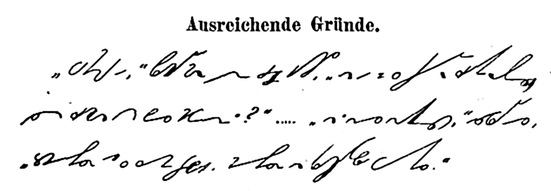 Example of Stolze Shorthand